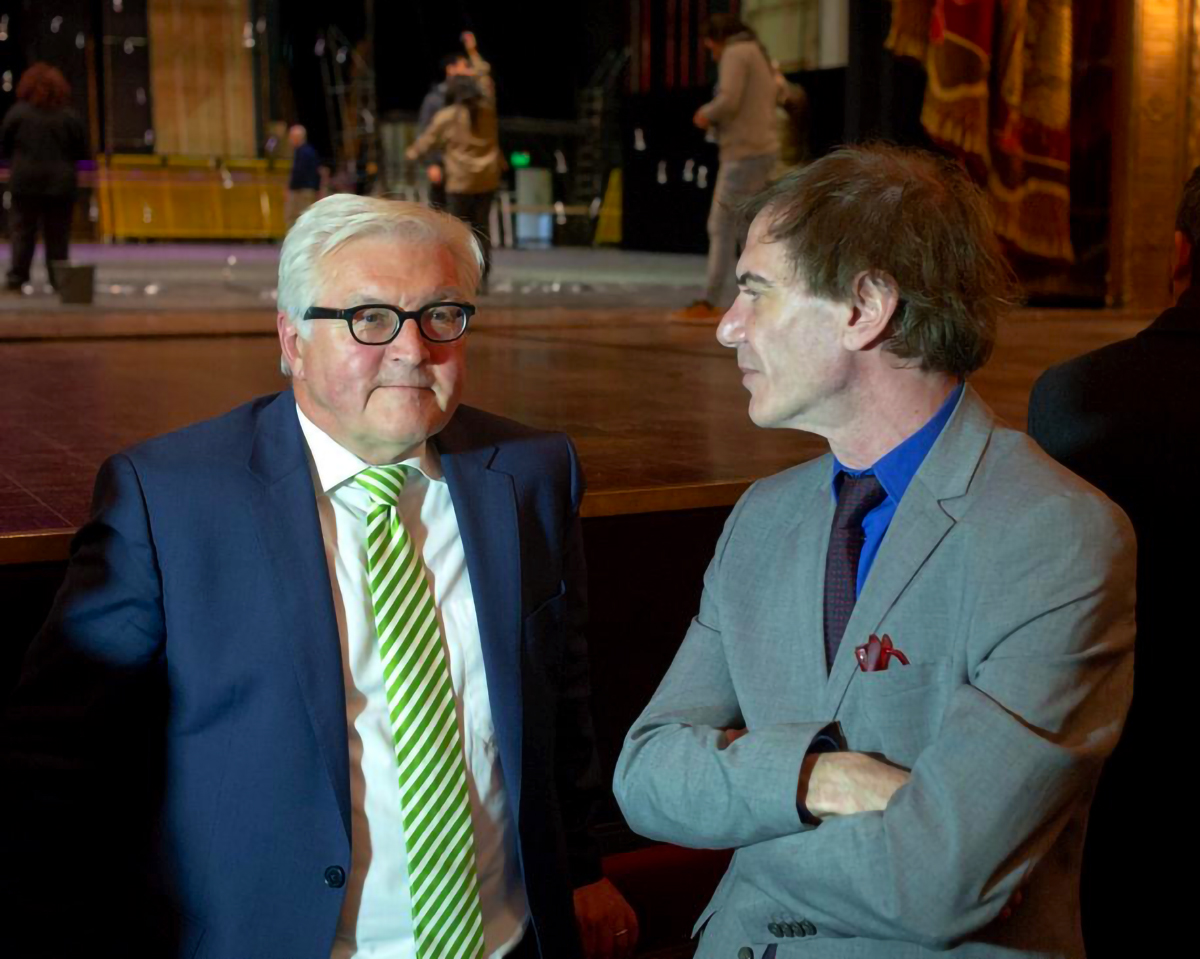 Darío Lopérfido with Frank-Walter Steinmeier, former minister of international relations and now president of Germany